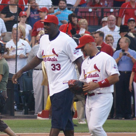 Shaquille O'Neal (left) and Albert Pujols